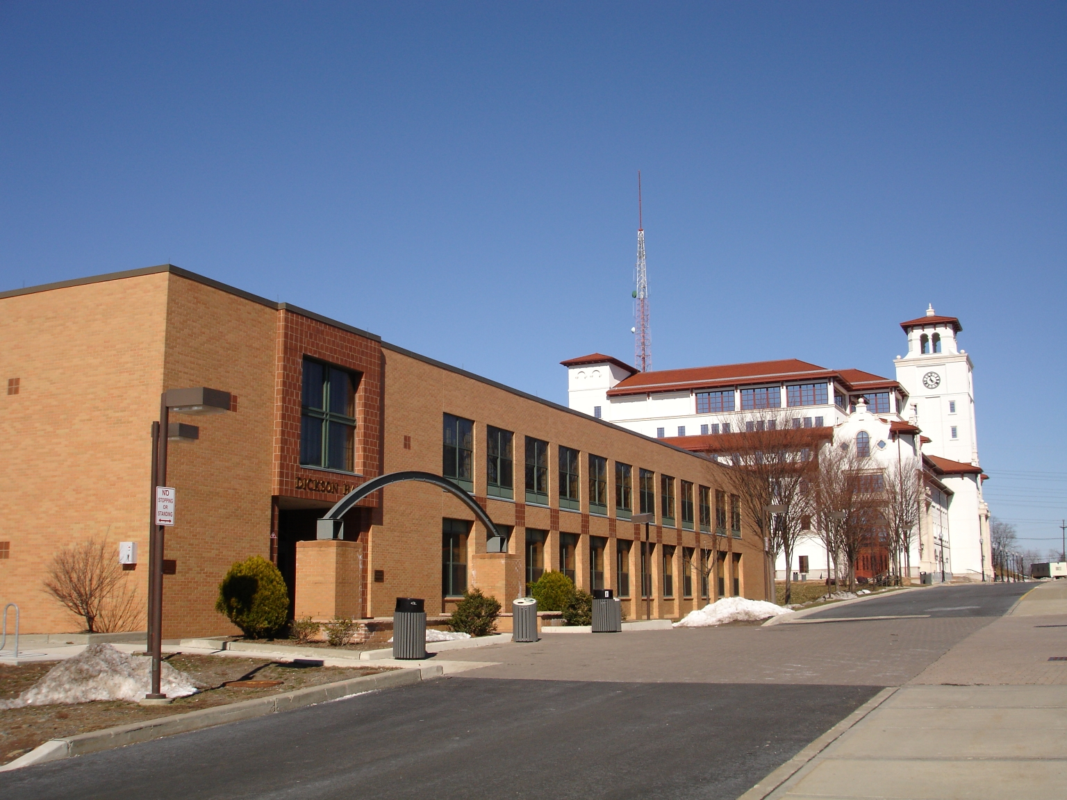 I am the author. This is original material that I photographed myself, as an alum of Montclair State University. Anyone can freely edit, distribute, and modify this image at will.